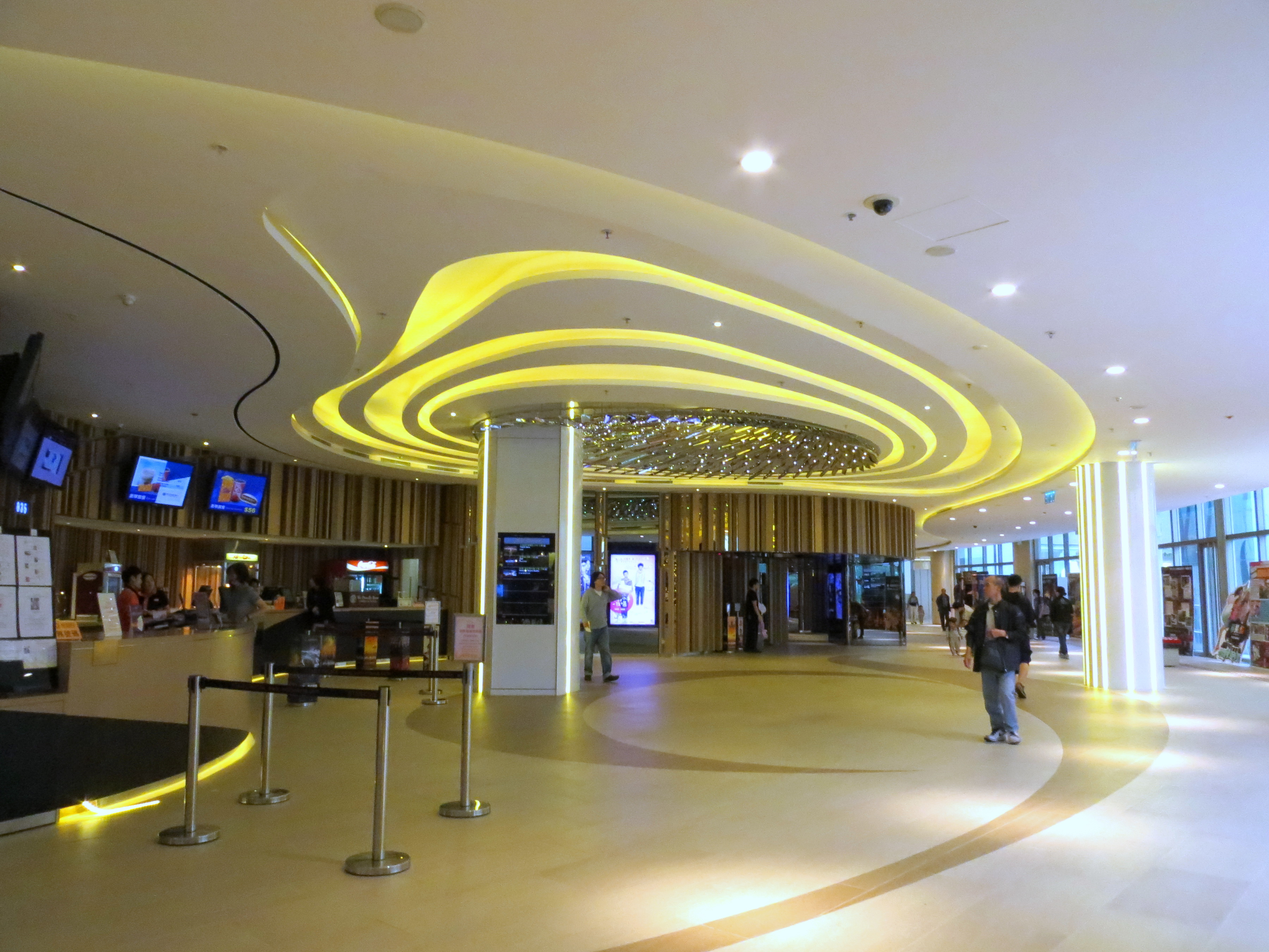 Box office of the STAR Cinema, PopCorn, 9 Tong Yin Street, Tseung Kwan O, New Territories, Hong Kong.